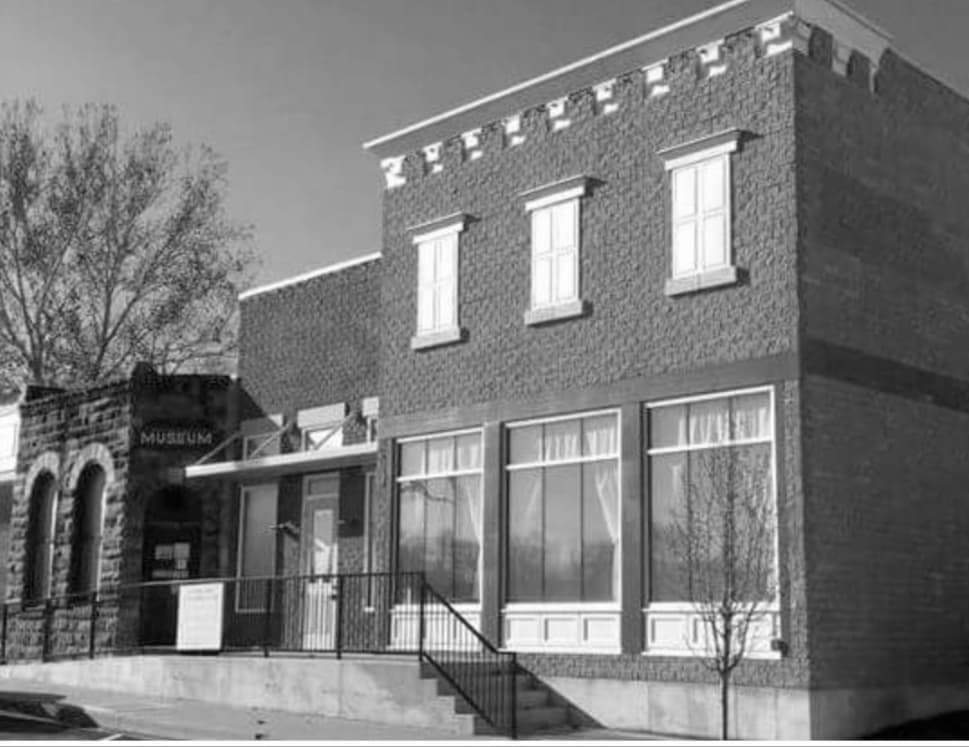 The front of the Pleasant Hill Historical Society Museum, showing the expanded area.